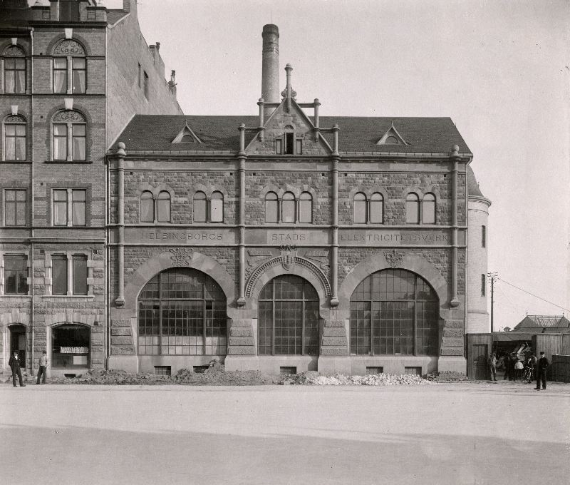 Gamla elverket (the Old Power Plant) in Helsingborg.